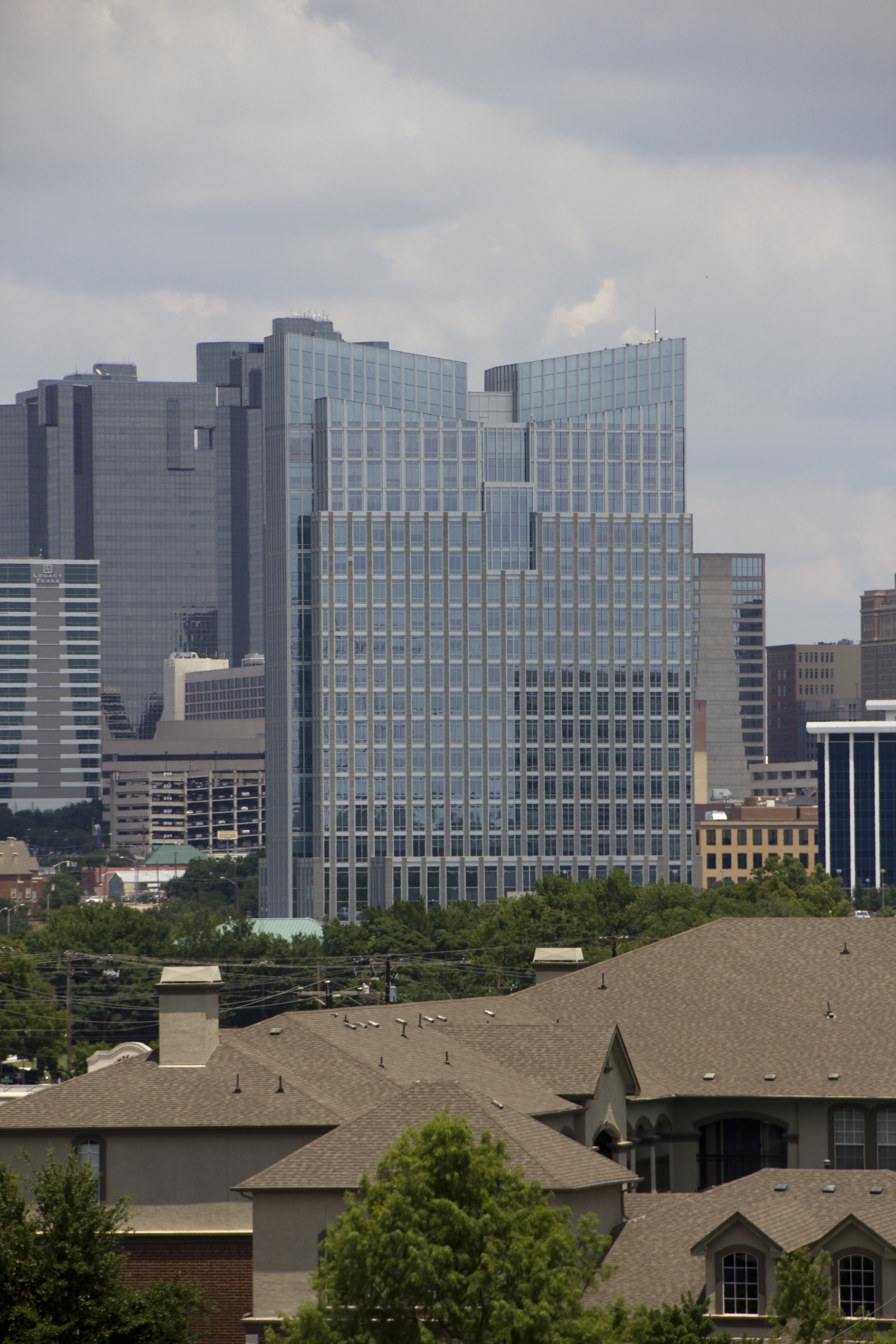 Chesapeake Energy Building(formerly Pier One Imports Building) in Fort Worth, Texas